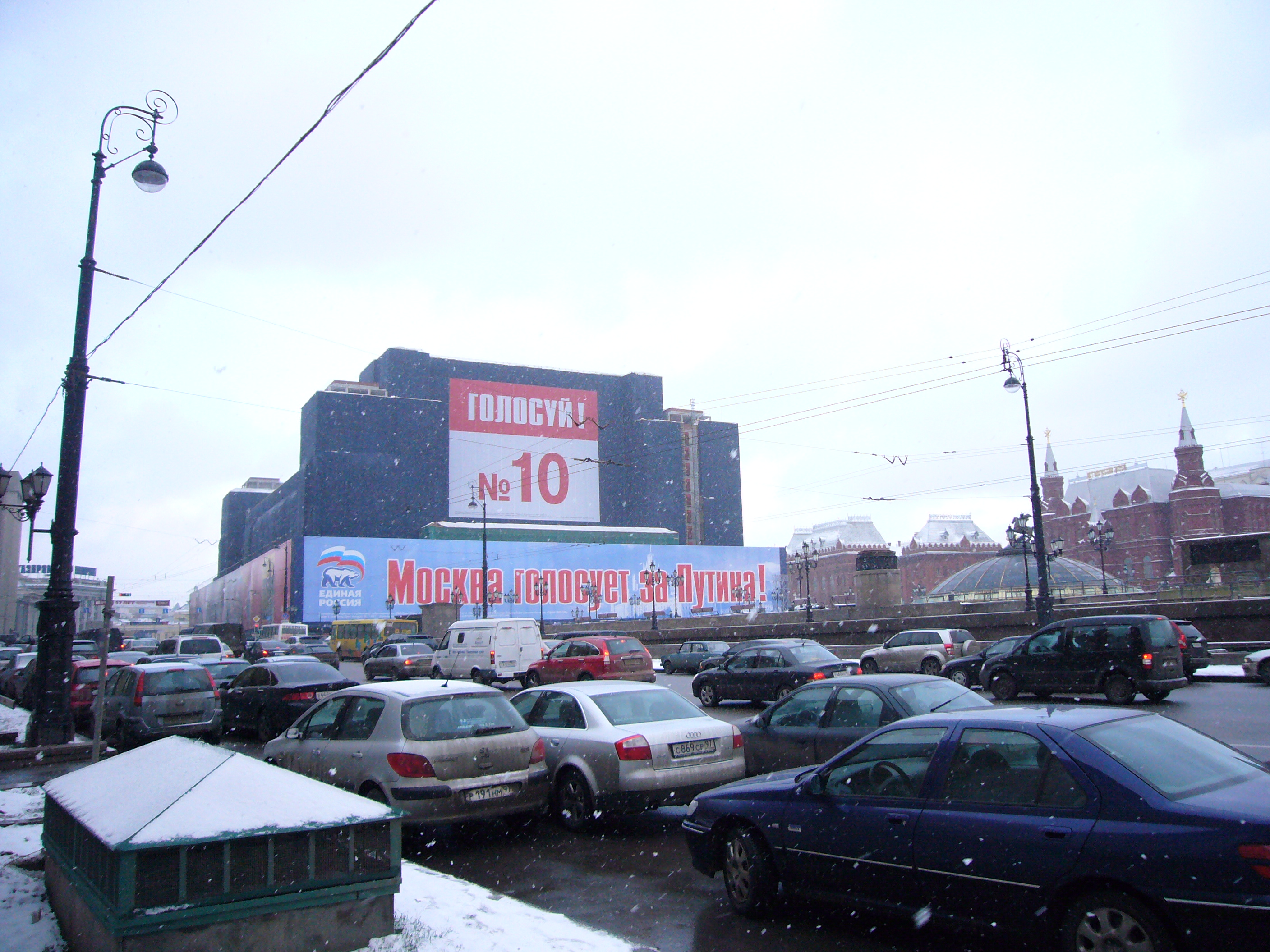 2007 Russian Duma Elections Campaign, Billboard "Moscow Votes for Putin. Vote No. 10" in Manezhnaya Square, Moscow, Russia